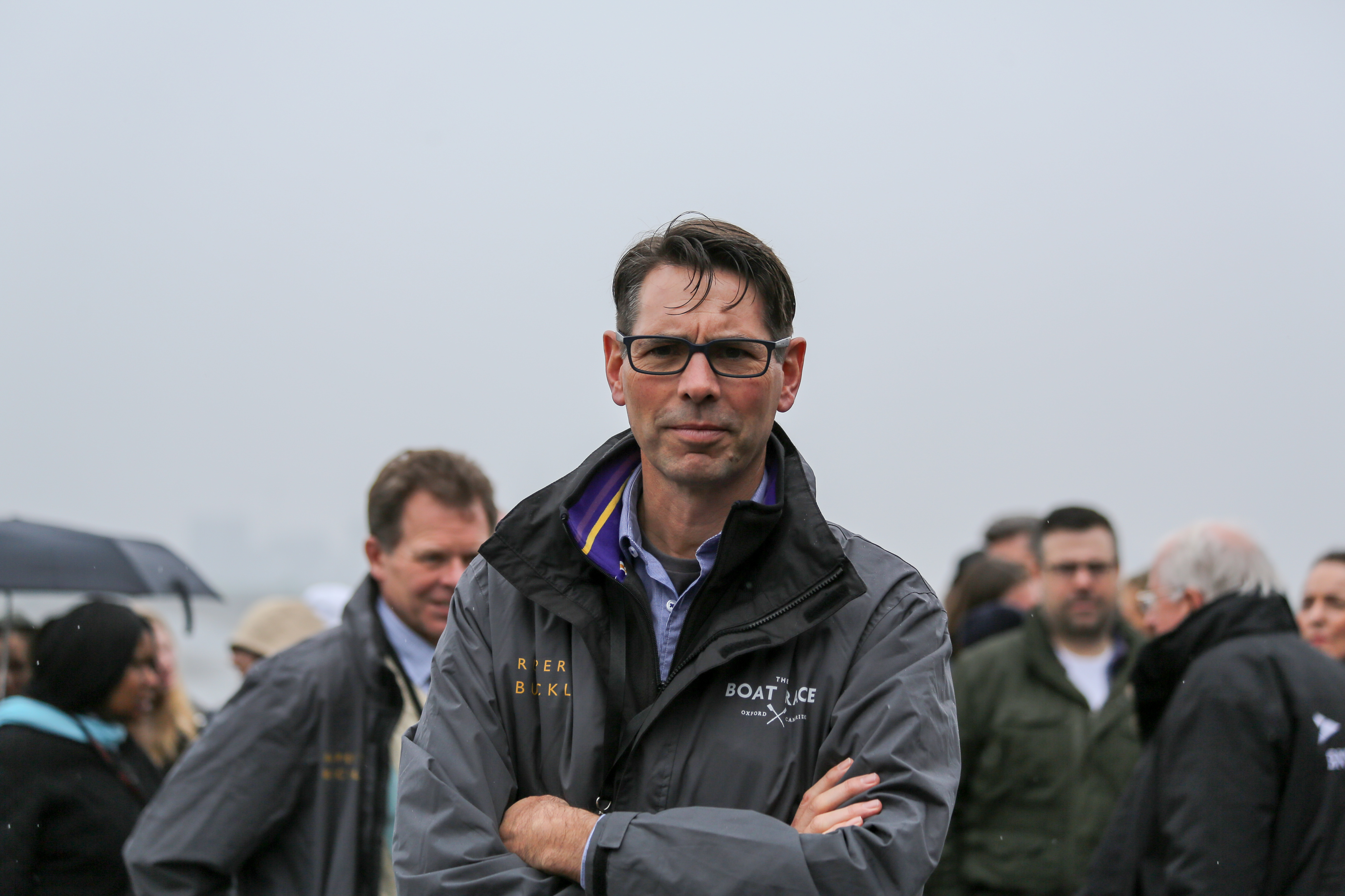 The Boat Race 2019 - Women's Blues Race - Umpire - Richard Phelps